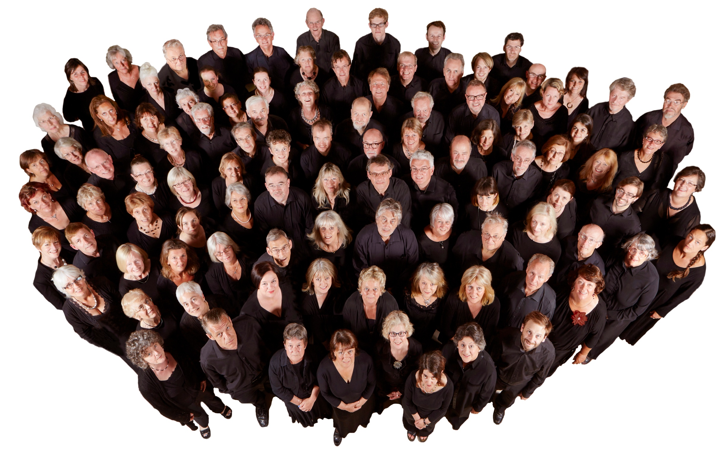 Overhead shot of some members of Brighton Festival Chorus, taken in October 2015